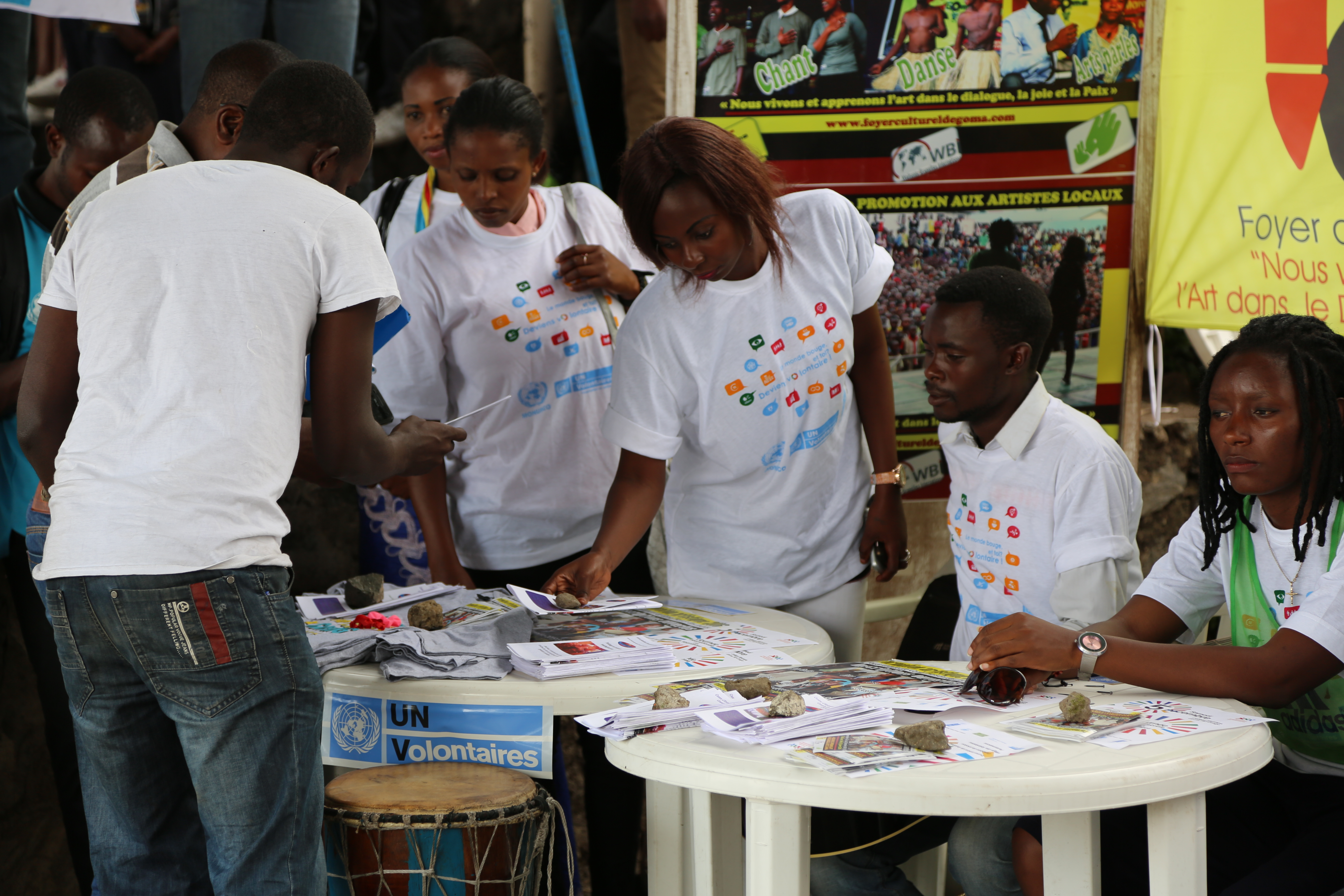 photo MONUSCO/Michael Ali